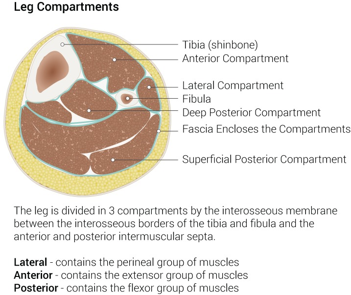 Leg Compartments, Tibia (shinbone), Anterior Compartment, Lateral Compartment, Fibula, Deep Posterior Compartment, Fascia Encloses the Compartments, Superficial Posterior Compartment. Contributed Illustration by Beckie Palmer